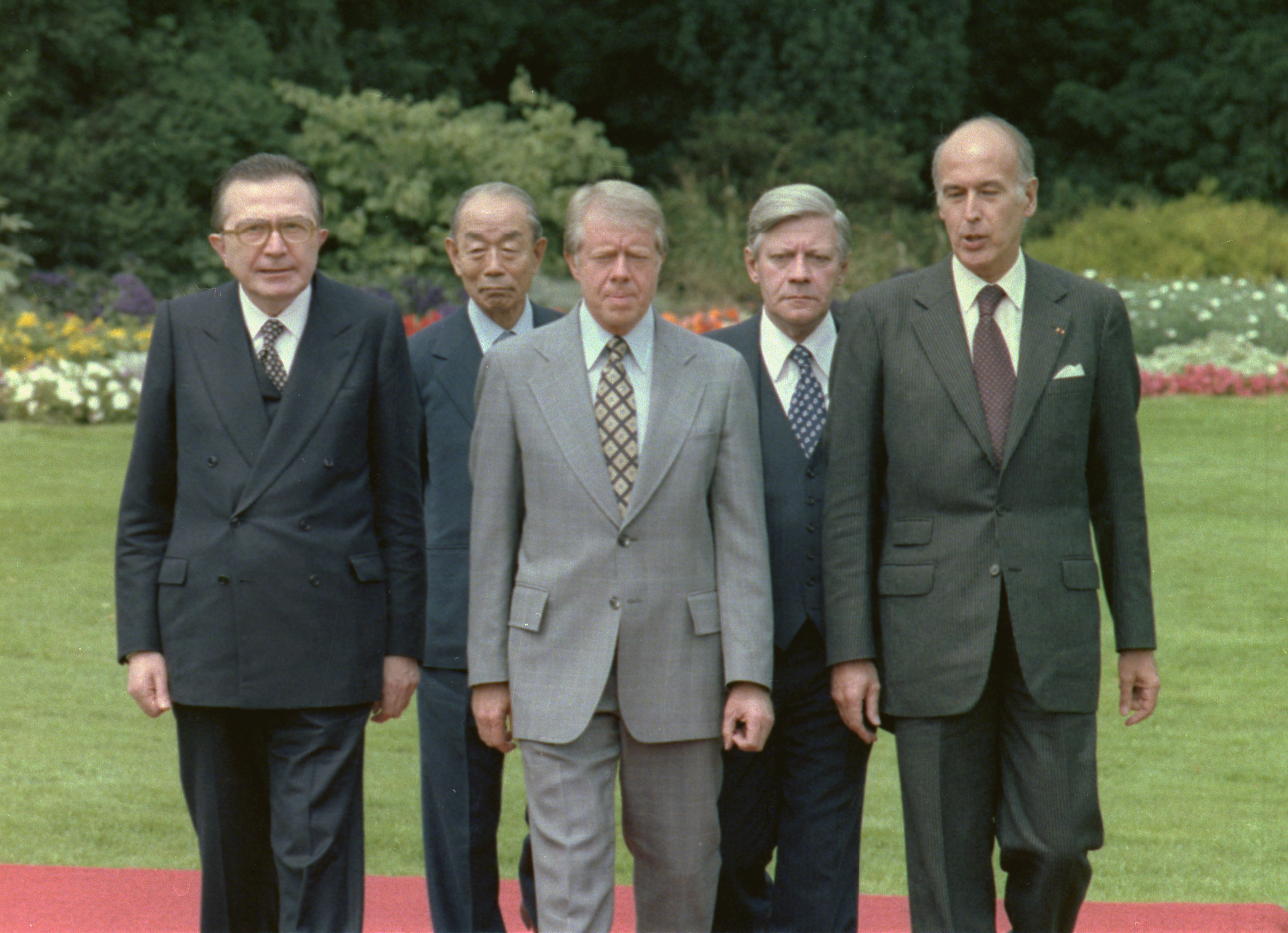 Giulio Andreotti (Italy), Takeo Fukuda (福田 赳夫) (Japan), Jimmy Carter (USA), Helmut Schmidt (West Germany) and Valéry Giscard d'Estaing (France) at the G7 Economic Summit in Bonn, Germany, 16 July 1978. Absent from the picture: James Callaghan (United Kingdom), Pierre Elliott Trudeau (Canada).